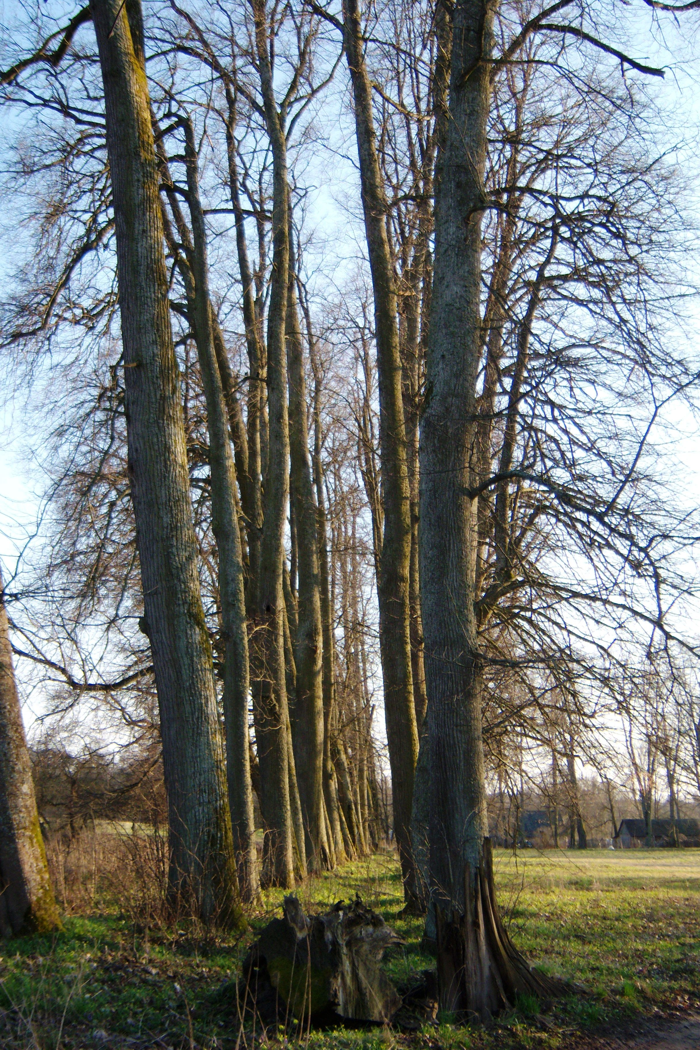 Former Jundeliškės manor, linden alley, Birštonas municipality, Lithuania